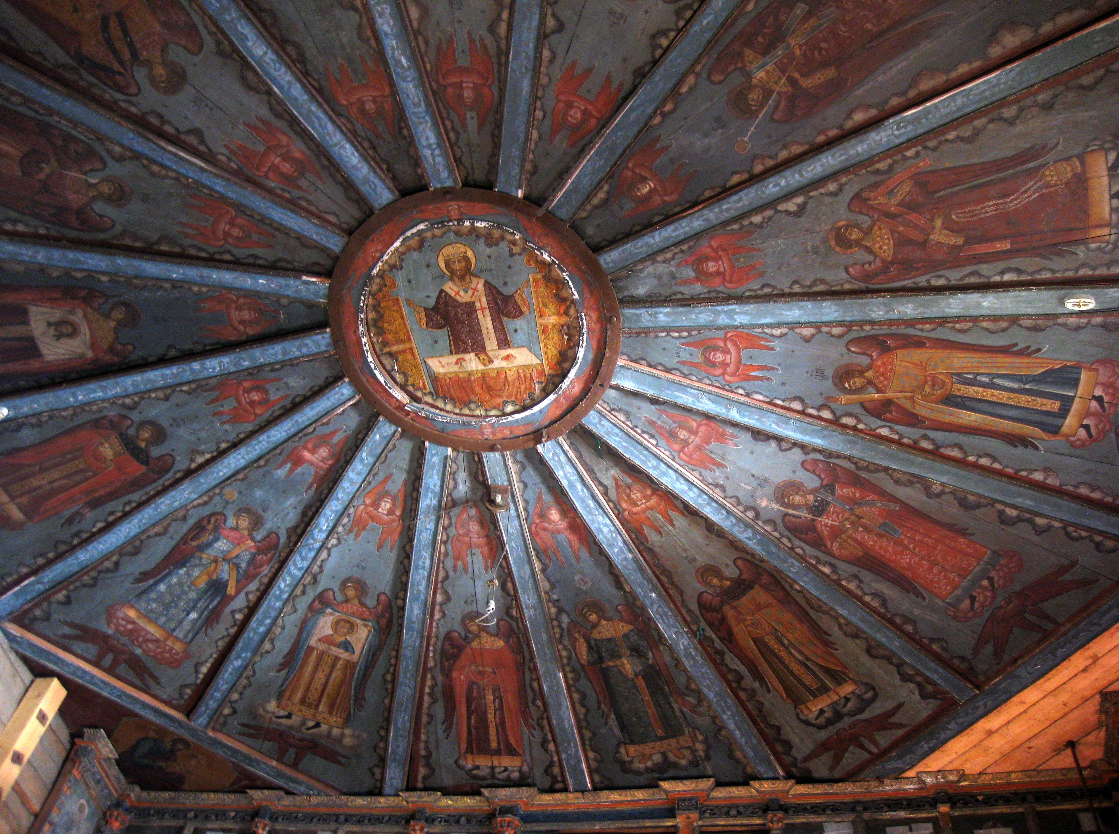 Inside dome of Church of the Dormition of the Theotokos (1774) at Kondopoga.